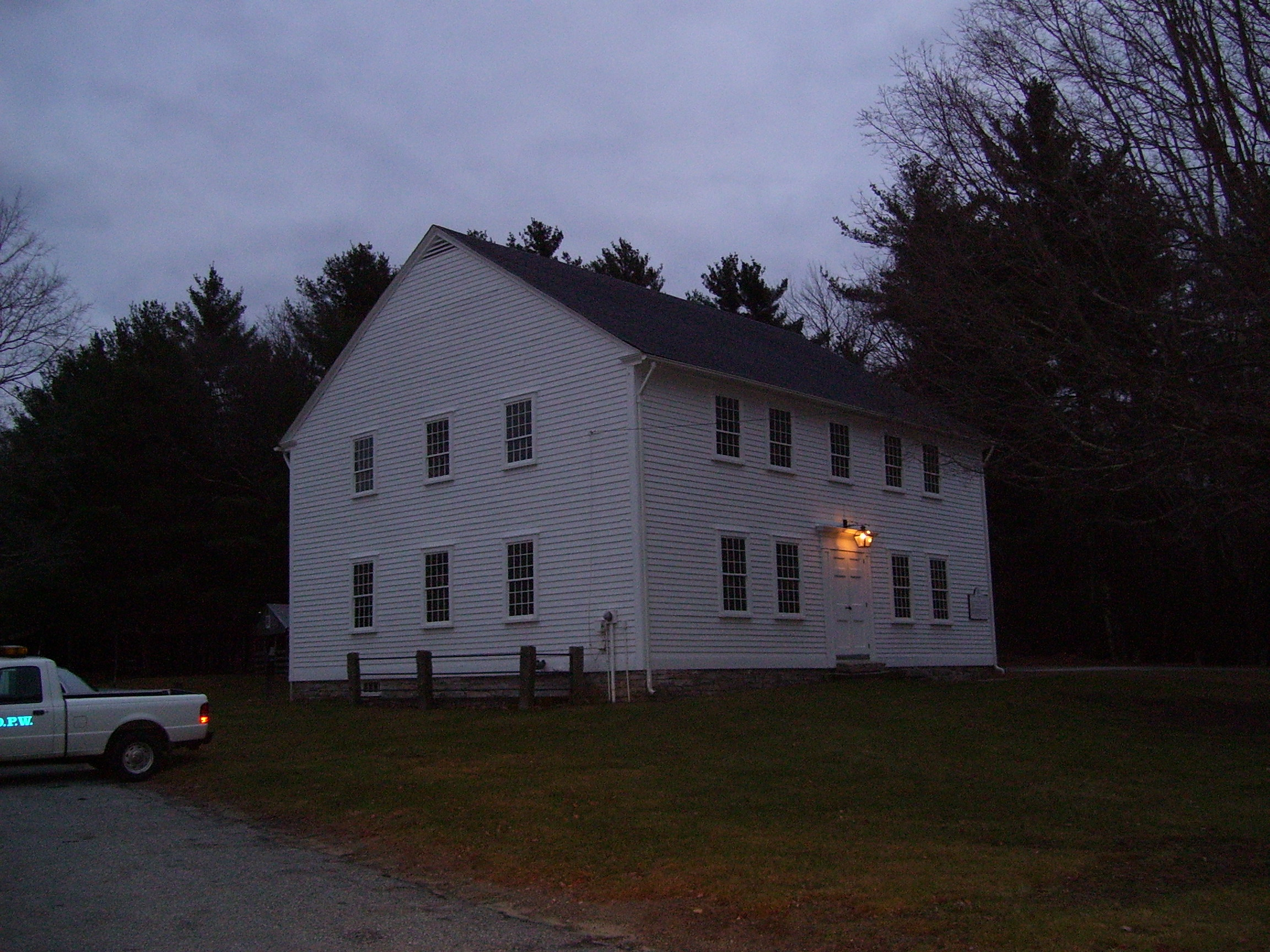 This is my 2008 photo of the Foster Town Building in Foster, Rhode Island. this is not the town house,it is behind this builing about 1000 feet past the police station